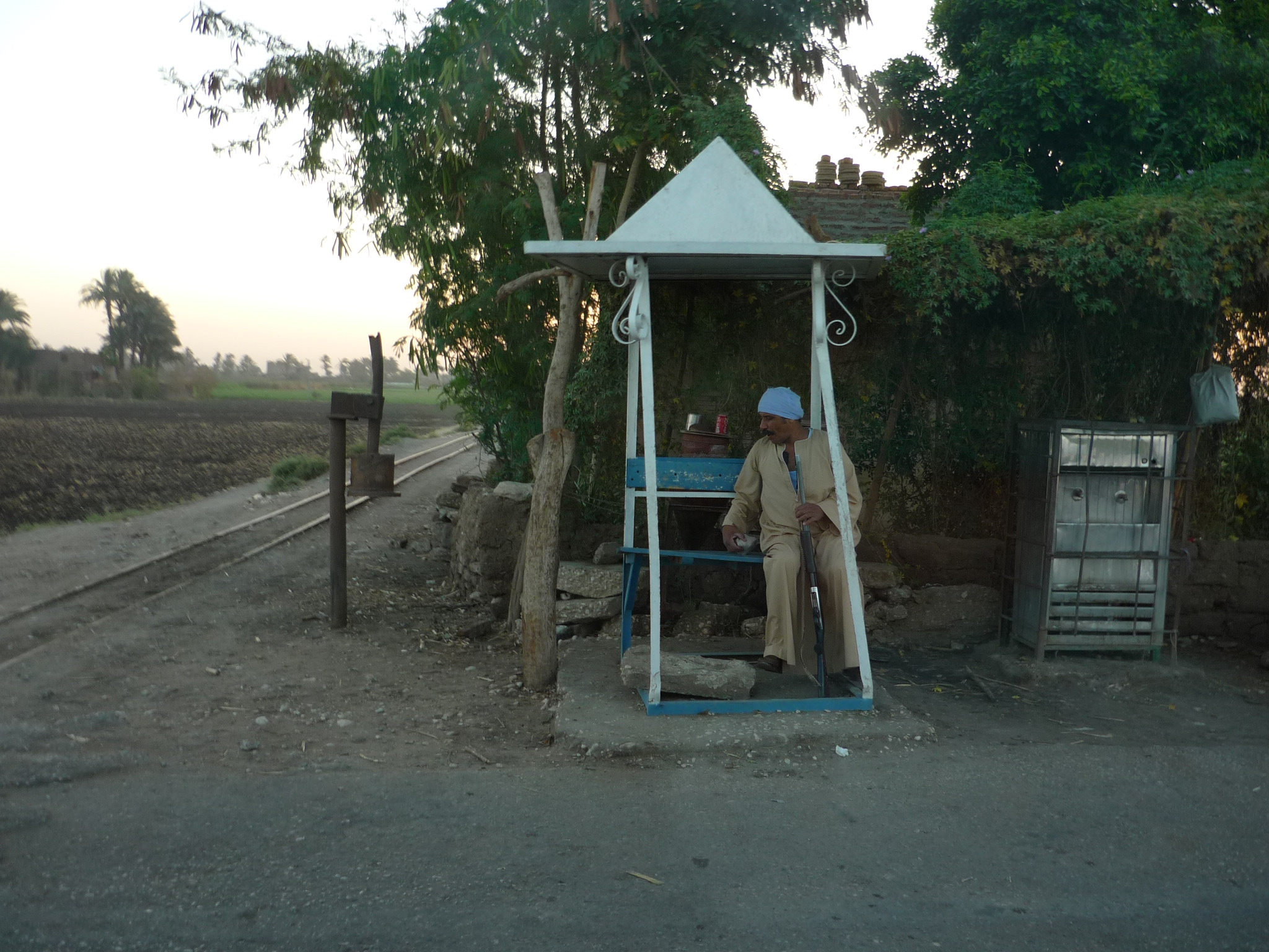 Police post with public foutain and railroad used for sugarcan, louxor west bank of Nile, Egypt